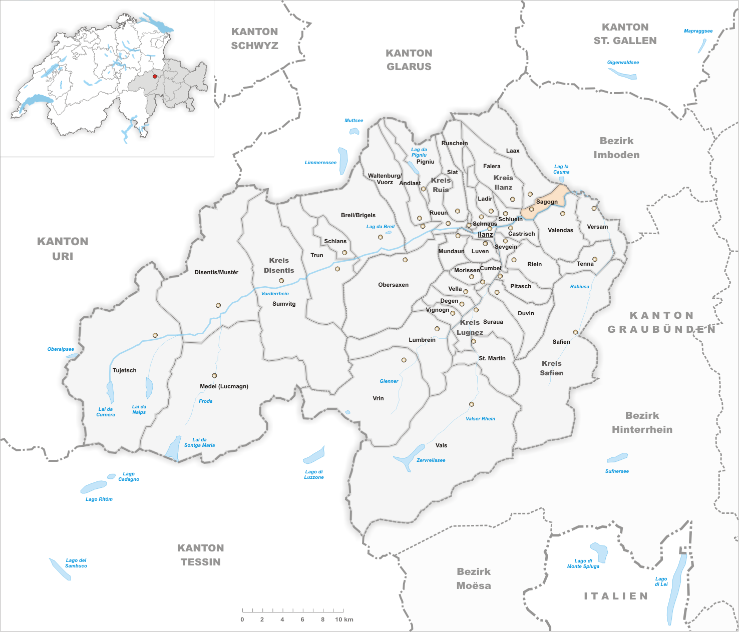 Municipality Sagogn